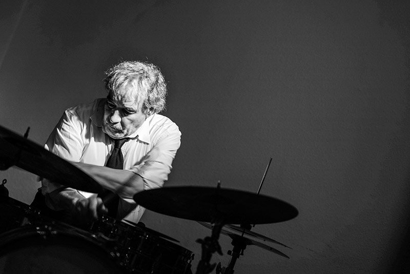 Paul Lovens in Aarhus Denmark 2018 playing with Mark Solborg and Susana Santos Silva